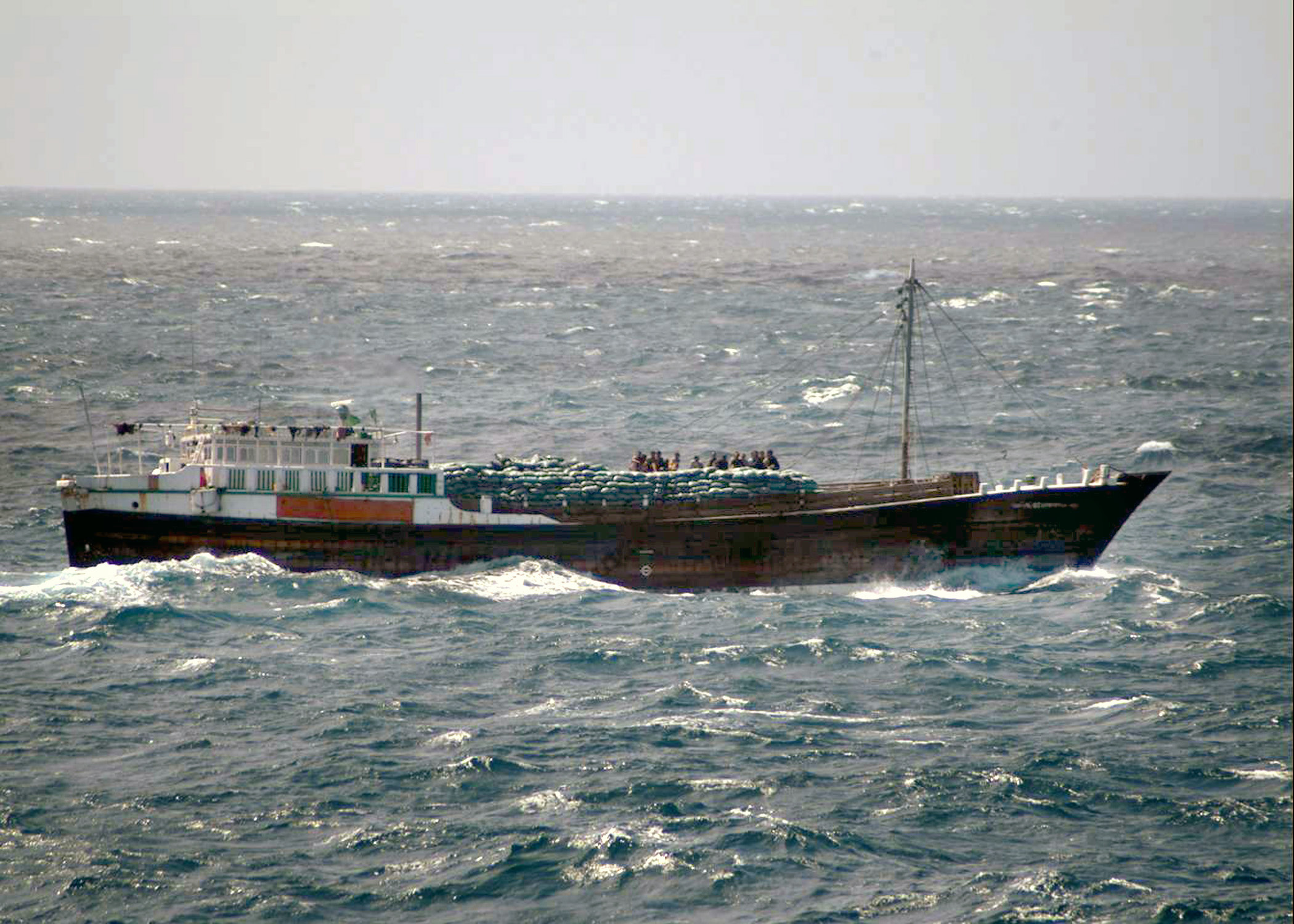 Crew members assemble on deck aboard a dhow suspected of piracy after being intercepted by the U.S. Navy destroyer USS Winston S. Churchill (DDG 81). After receiving a report of an attempted act of piracy from the International Maritime Bureau in Kuala Lumpur on the morning of Jan. 20, the guided missile destroyer USS Winston S. Churchill (DDG 81) and other U.S. naval forces in the area located this vessel controlled by suspected pirates and reported its position. After some aggressive action by Churchill, US Sailors later established communications and boarded the vessel.